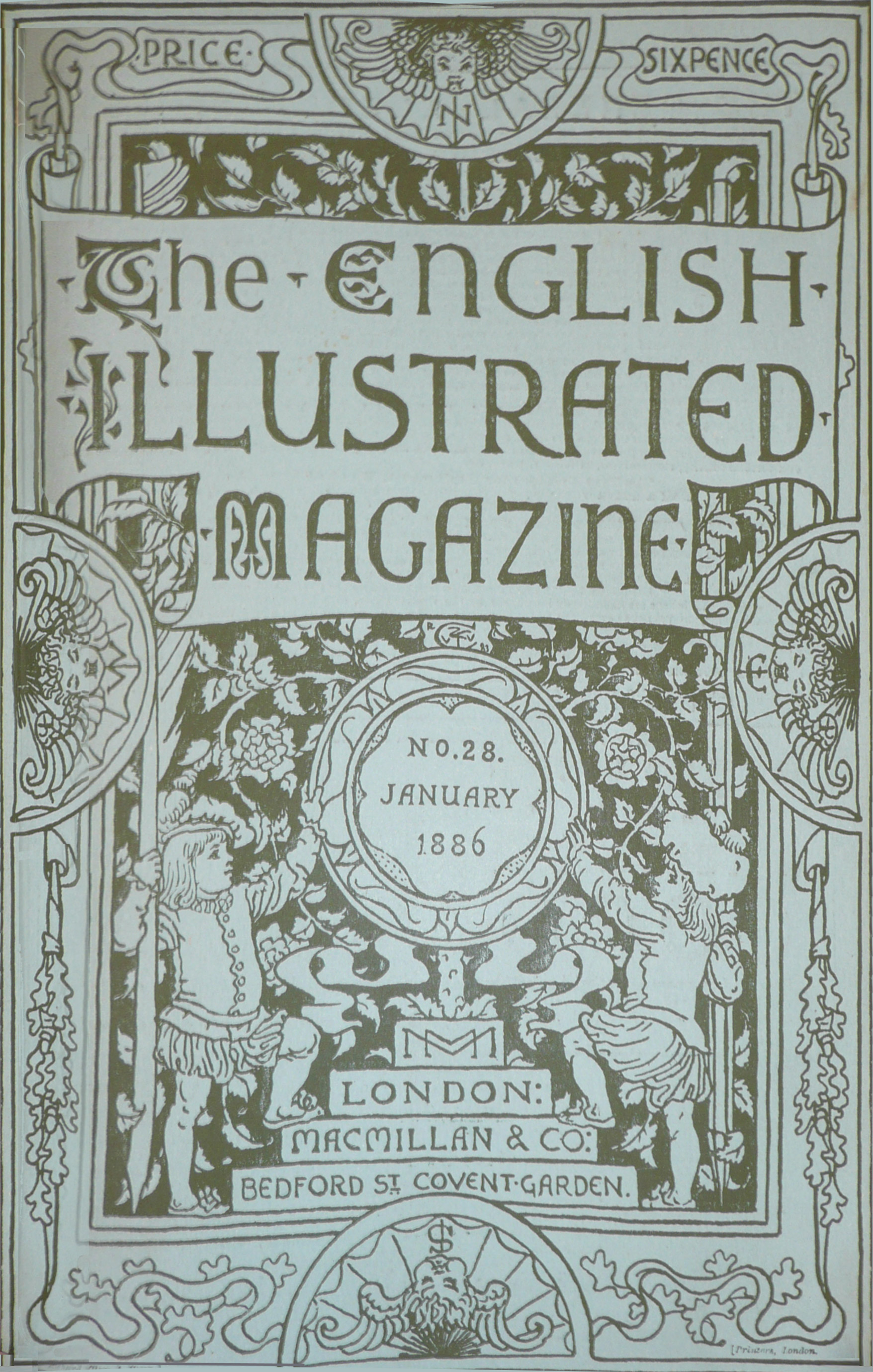 The front cover of The English Illustrated Magazine for October 1885. In terms of quality, errors in the image (such as uneven colouration) are likely to have result from the haphazard digitisation process, rather than being present in the original.